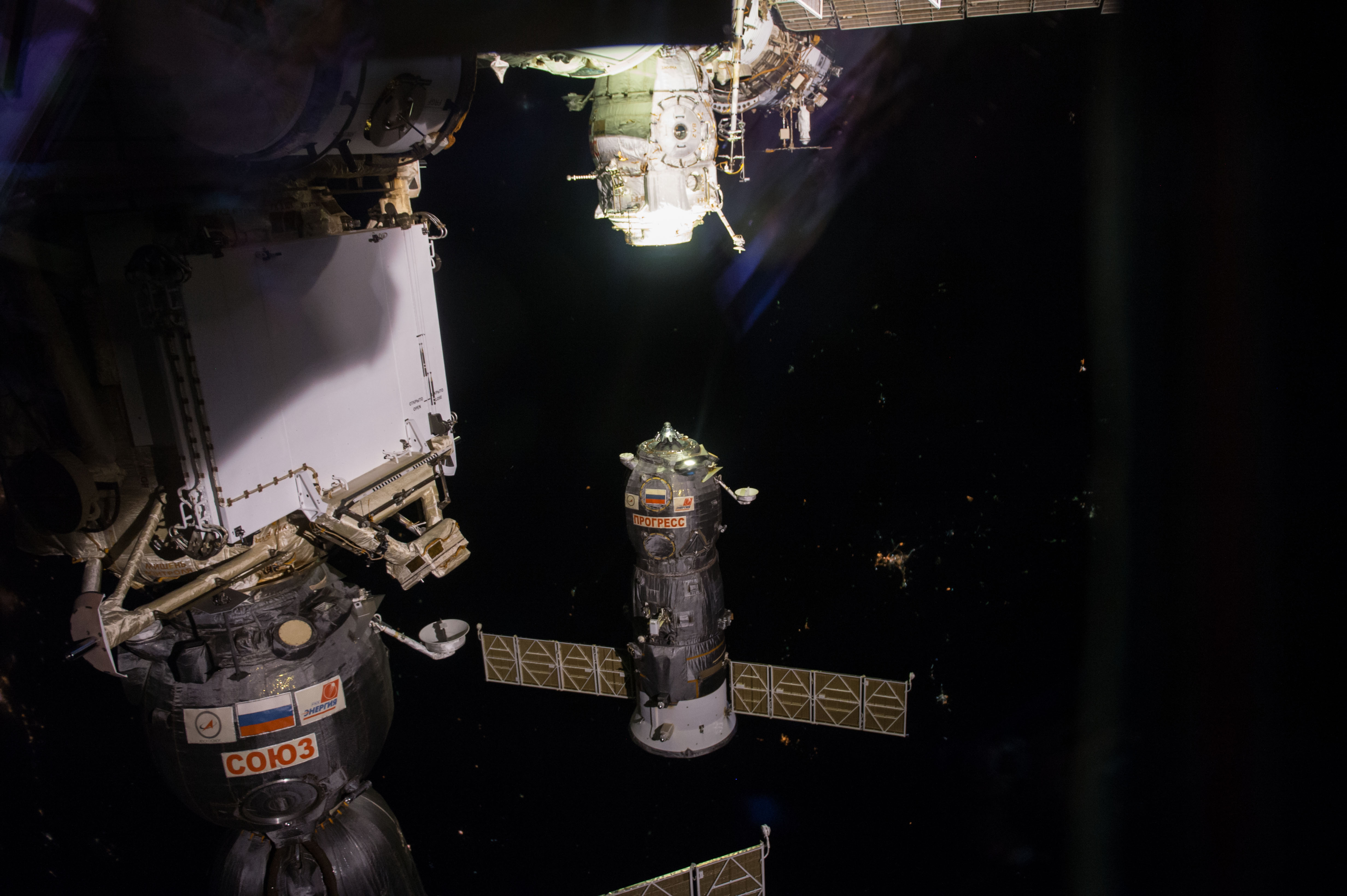 The Russian Progress 64 cargo craft is photographed backing away from the Pirs Docking Compartment shortly after departure. The unpiloted spacecraft delivered several tons of supplies to the station and spent 196 days attached to the orbiting laboratory.